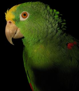 yellow naped amazonian parrot (but see following comment). Self made. Due to the all-pale bill, this is not a pure Yellow-naped. It is likely to involve the Yellow-headed Amazon; either a pure Yellow-headed (e.g. from the southern populations with reduced yellow to the head) or a hybrid involving this species. from wiki